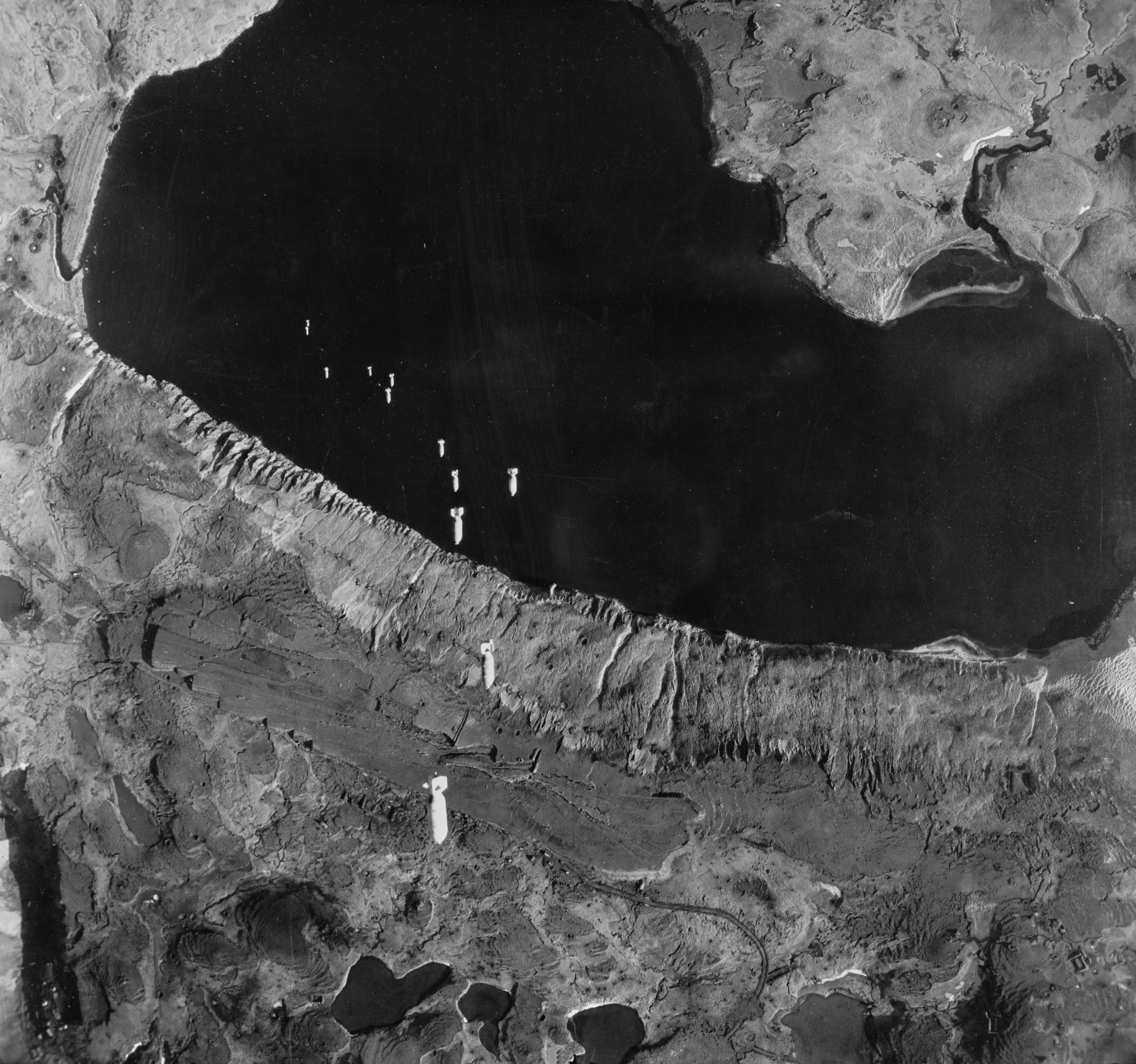 Aerial photo of a U.S. Army Air Forces attack on Kiska island, Alaska (USA), circa 1943. Original caption: "A train of bombs drops from United States Army Air forces plane on territory in the Aleutians held by the Japanese. Our fighting forces harass the enemy at this important outpost daily."